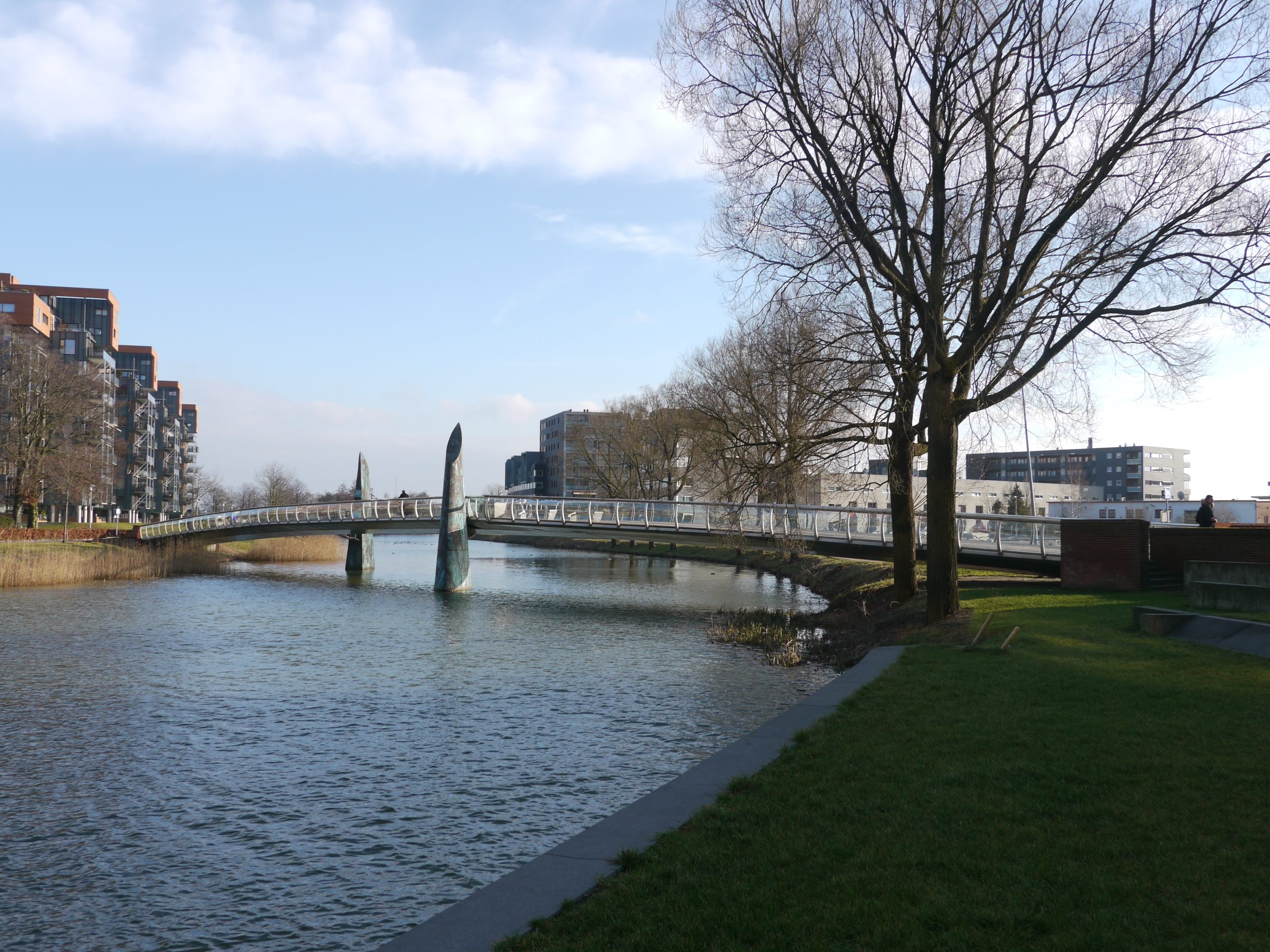 'De Freule': pedestrian/bicycle bridge over the Apeldoorns Kanaal, in the centre of Apeldoorn (nl). Built in 2000 by artist Tirza Verrips.